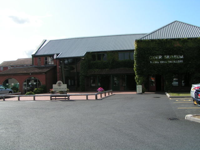 Cider Museum, Hereford